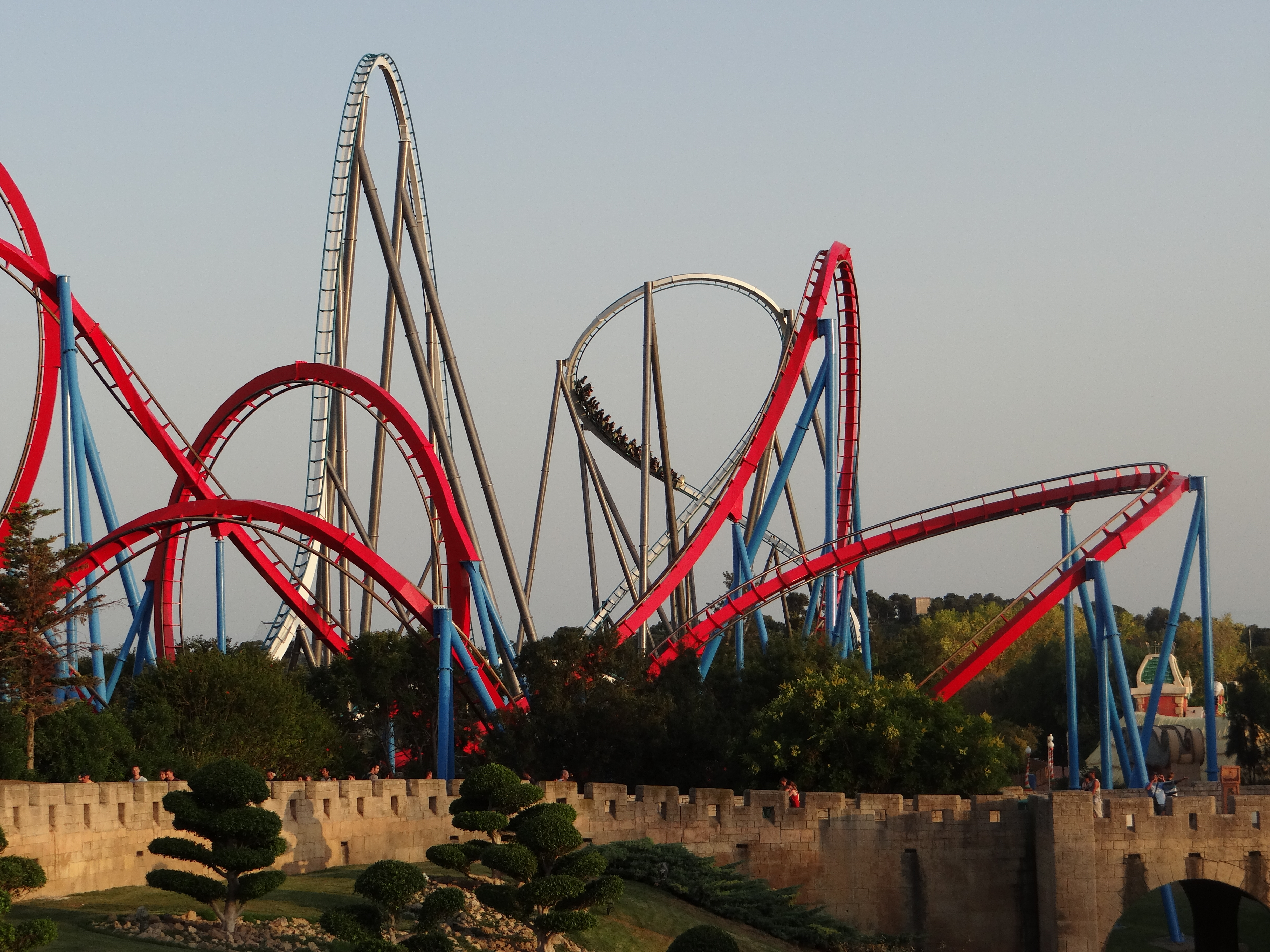 Dragon Khan and Shambhala from far, Port Aventura, 2012